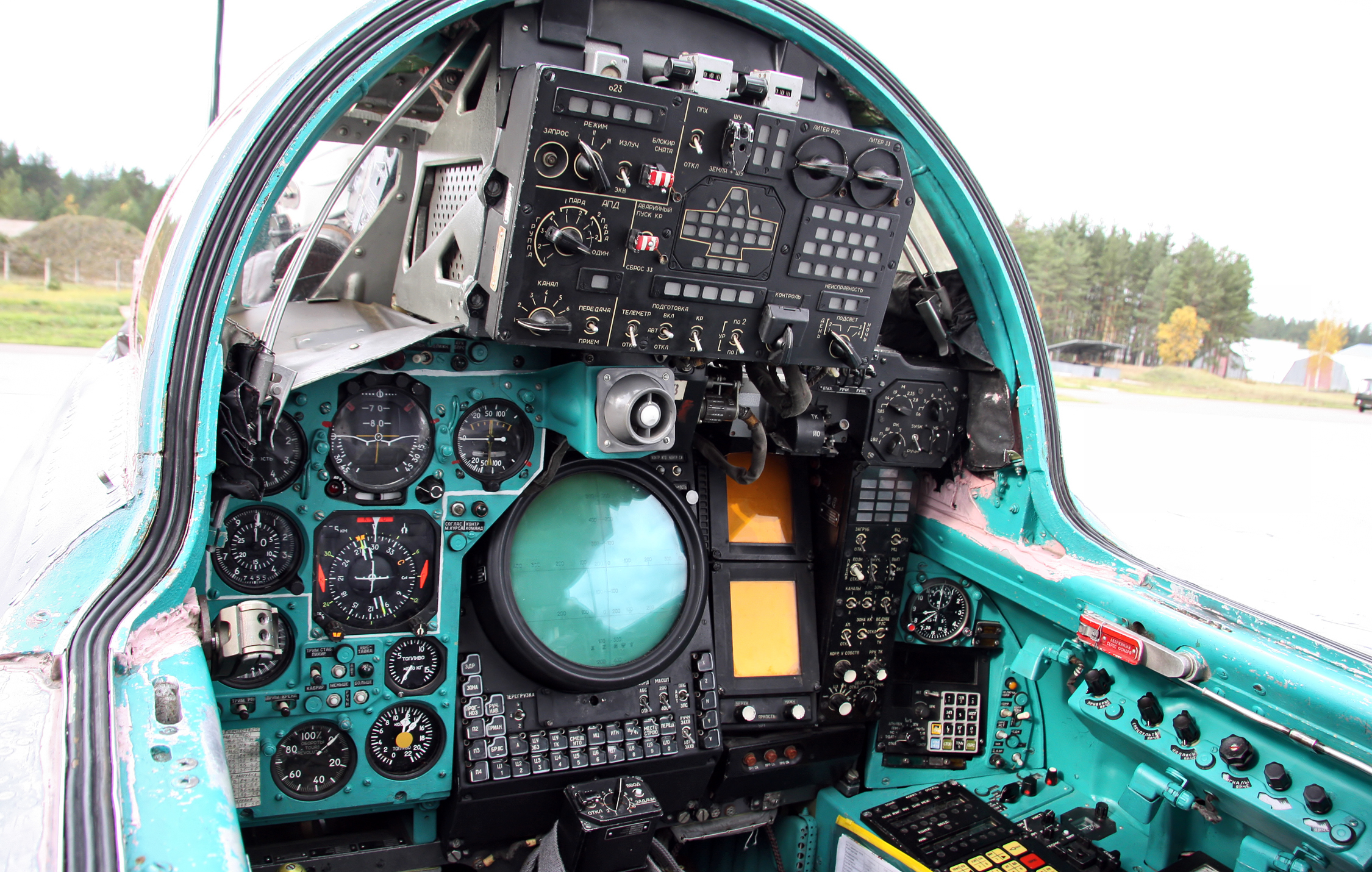 Second pilot cockpit of Mikoyan-Gurevich MiG-31 interceptor